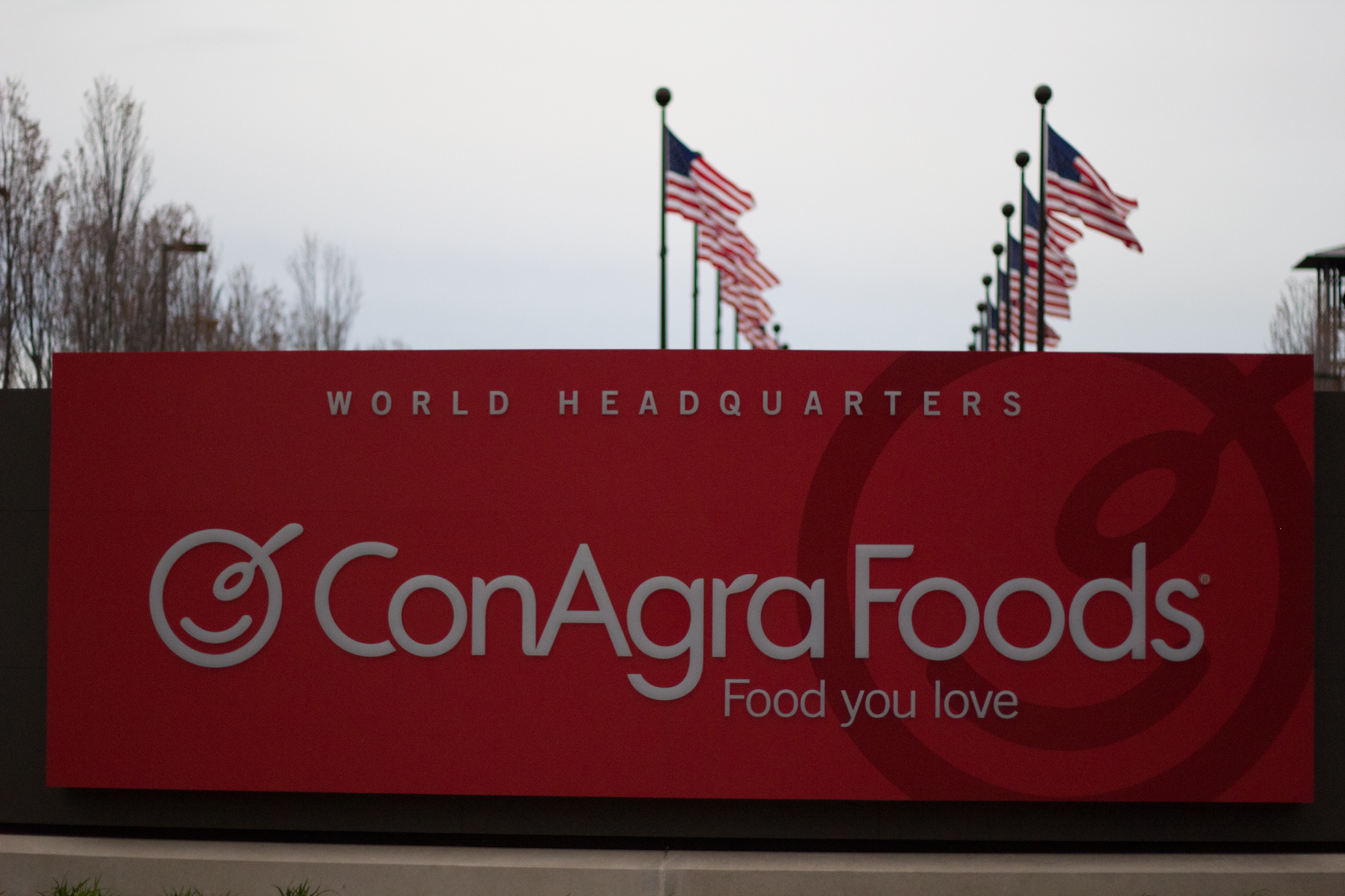 Corporate headquarters of ConAgra Foods